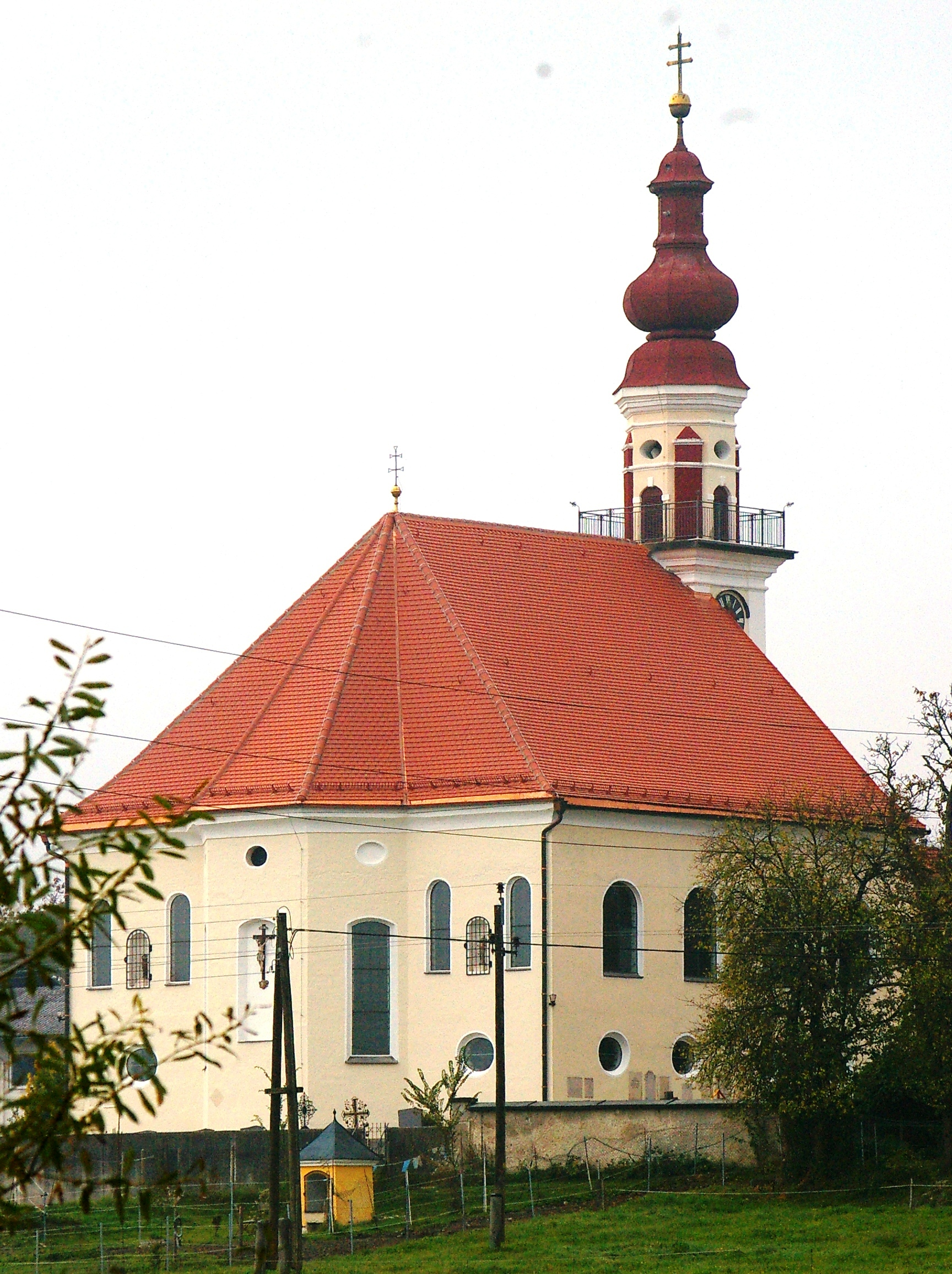 parish church St.Pantaleon